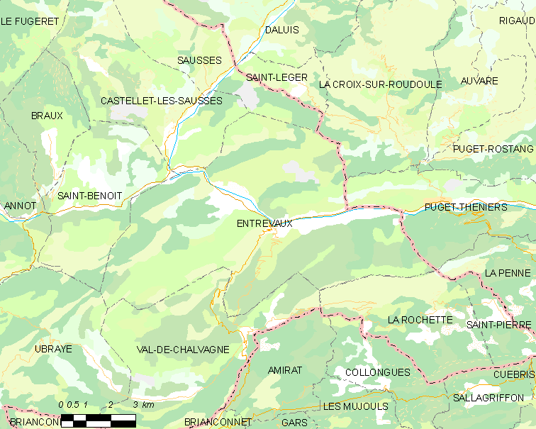 Map commune FR insee code 04076.png Légende